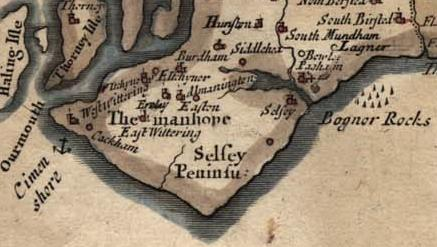 Section of a map of Sussex, produced in 1695 by Richard Morden, showing the southern part of the Manhood Peninsula and Selsey.